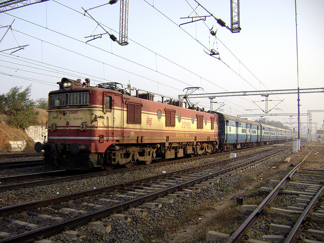 VSKP-Nanded Express exits Moula Ali, Hyderabad